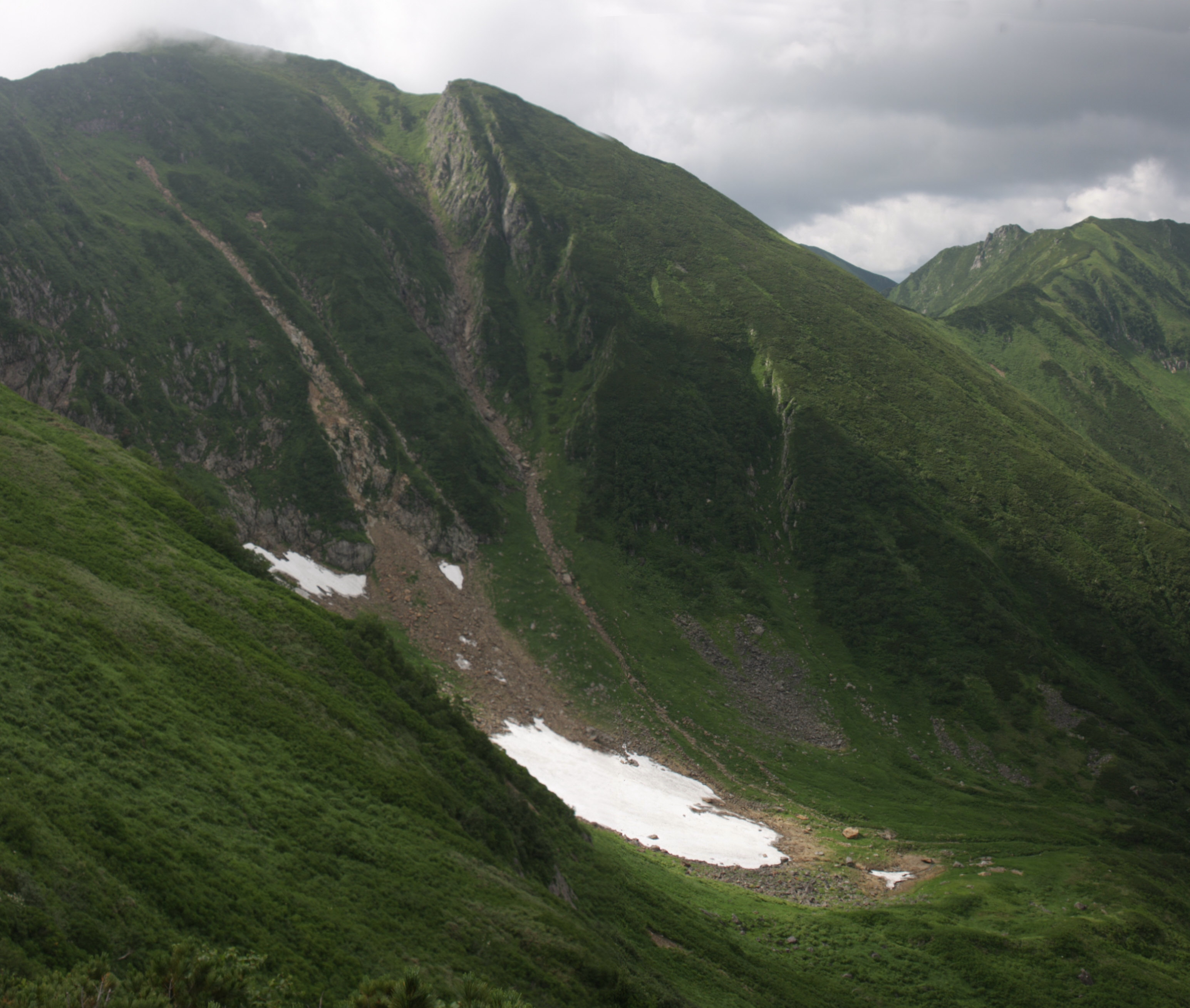 Hachinosawa Cirque in Mount Kamuiekuuchikaushi